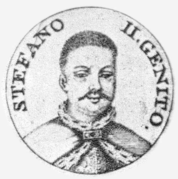 Ștefan Brâncoveanu, second son of Constantin Brâncoveanu, ruler of Țara Românească